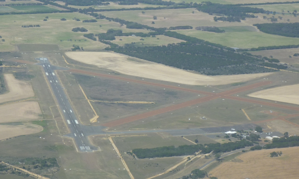 View of Kingscote Airport (YKSC) from the north, looking south